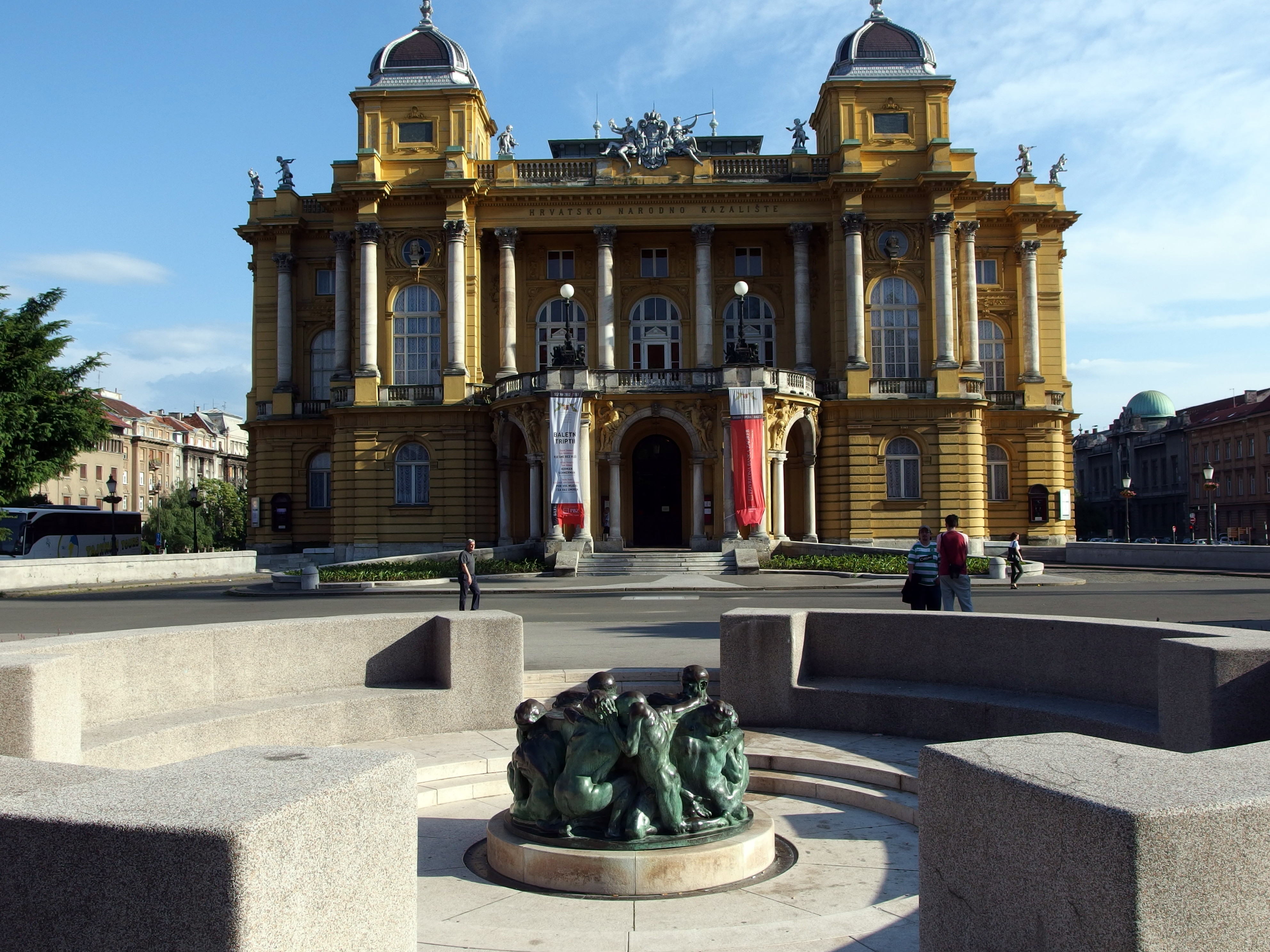 2013-06-09 in Zagreb.